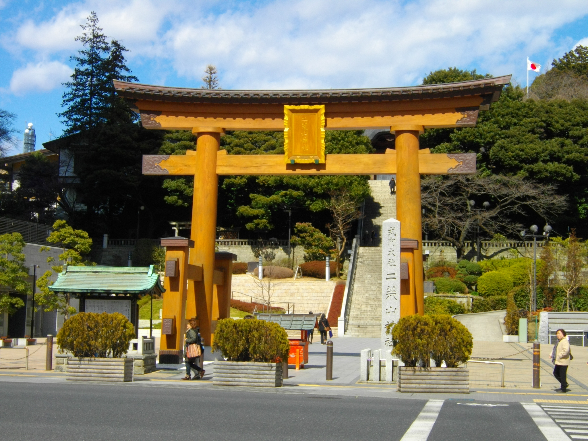 Utsunomiya Futarasan Jinja